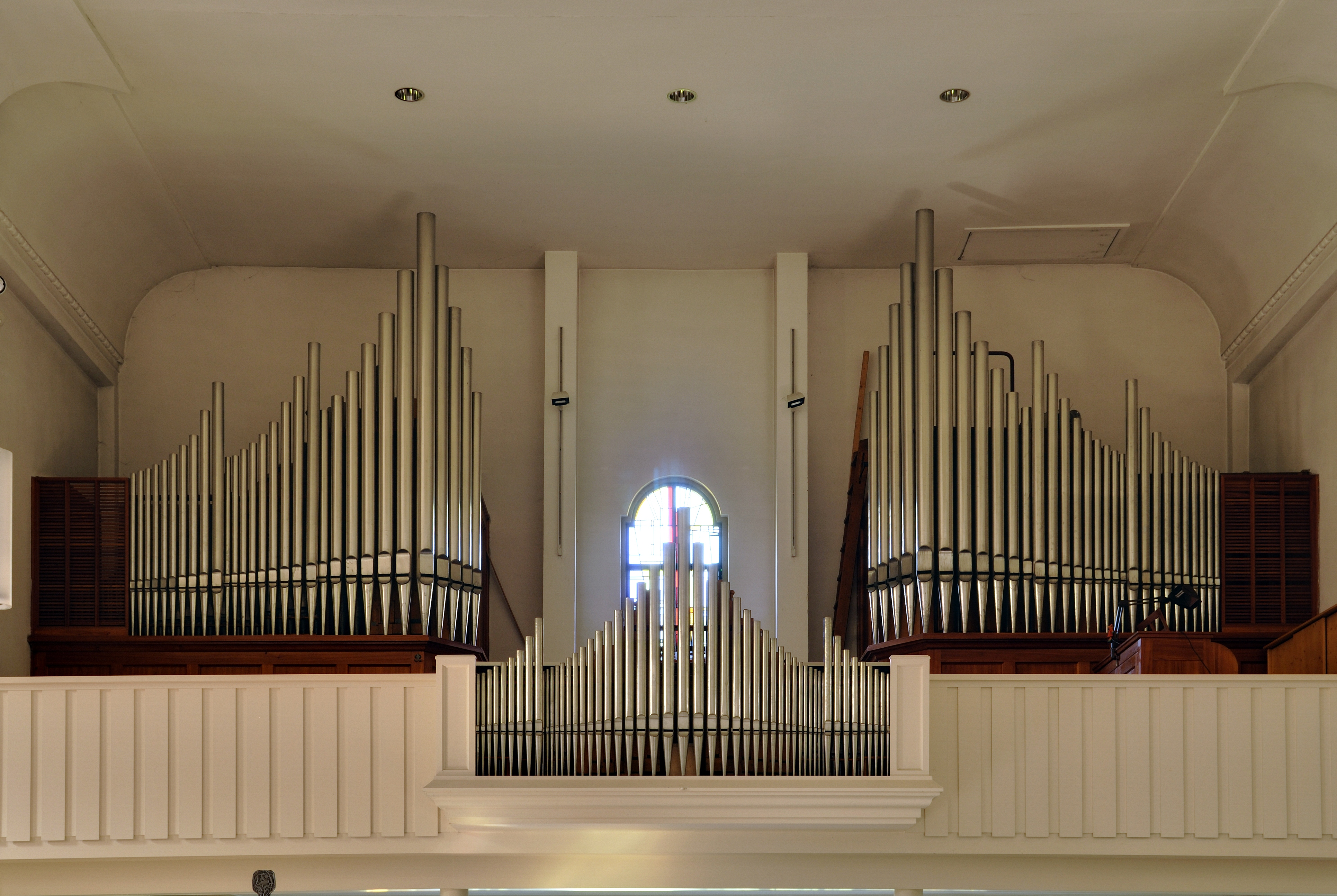 Zell im Wiesental: Church of the Assumption in Atzenbach